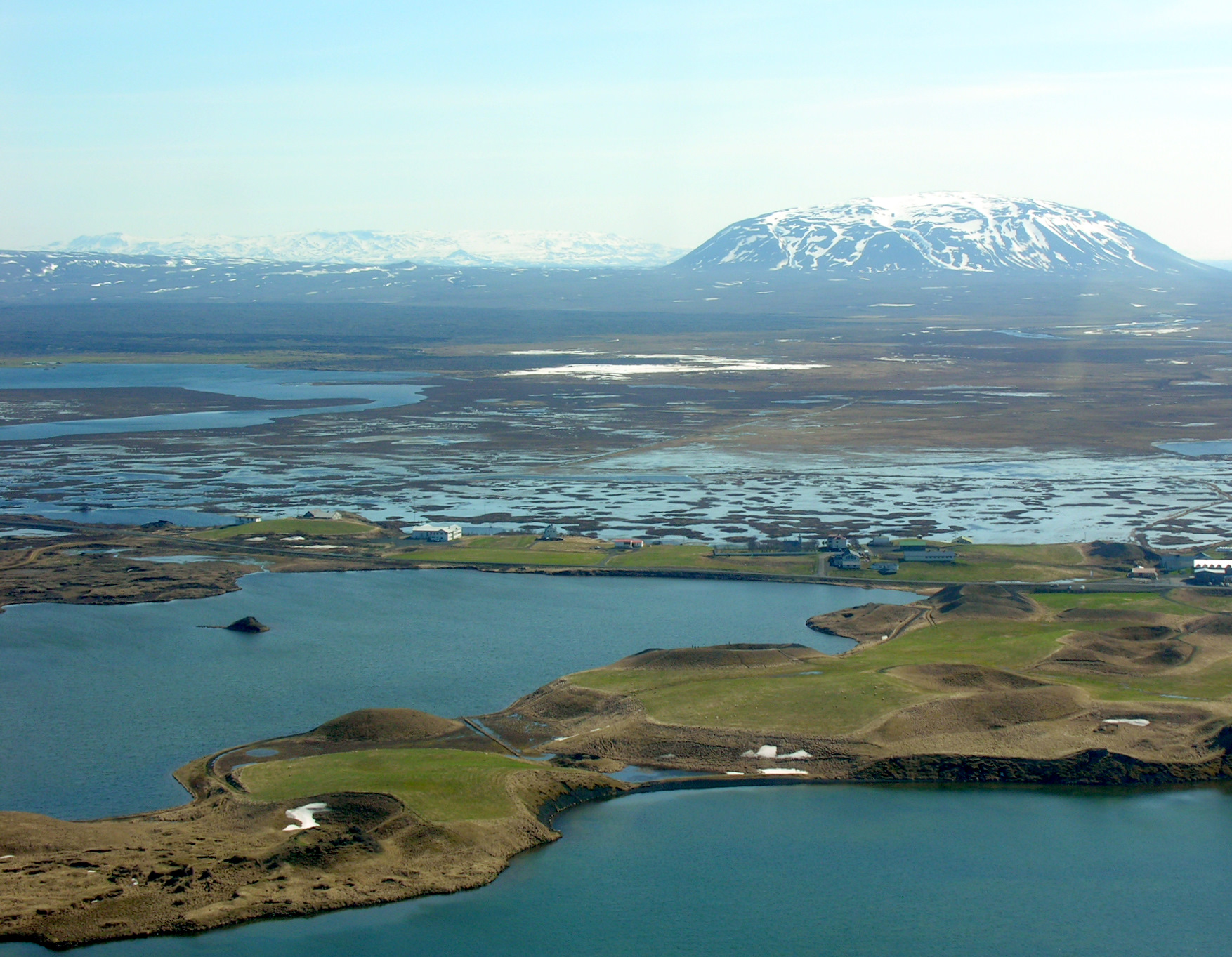 Aerial View of Pseudo Craters at Mývatn